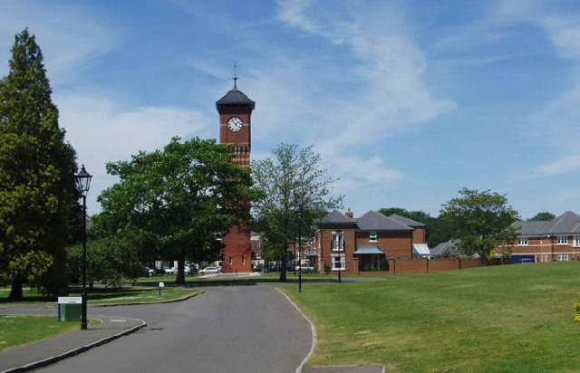 Warlingham Park. The old tower (1903) of the Warlingham Park Hospital (formerly known as the Croydon Mental Hospital) is still standing and can be seen for miles, but the place is now an exclusive gated residential community.